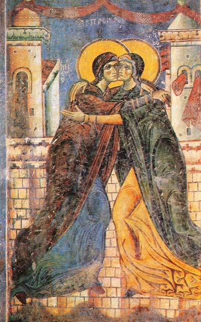 The Embrace of Elizabeth and the Virgin Mary. St. George Church, Kurbinovo, North Macedonia